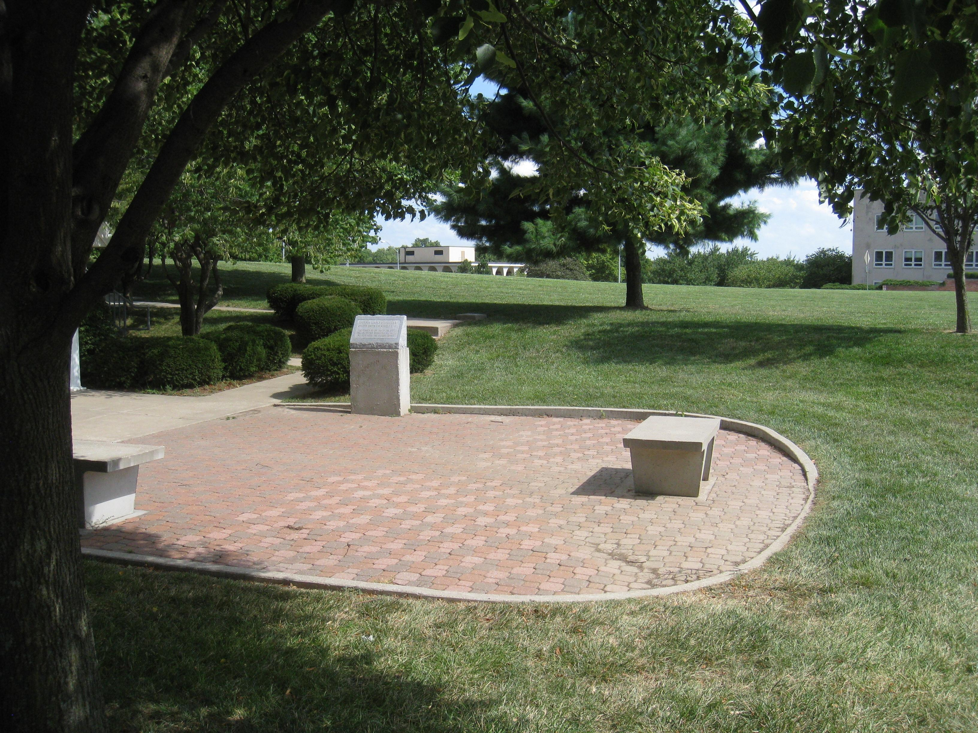 View southward of the Temple Lot (often erroneously called "The [Mormon] Temple Lot"), showing the roof of the LDS Visitors Center (Independence, Missouri) (LDS Church) and the east edge of the RLDS/Community of Christ Auditorium. View is from the RLDS/Community of Christ Stone Church) which is north across the street from the headquarters building of the Church of Christ (Hedrickite) also known as the Church of Christ (Temple Lot).